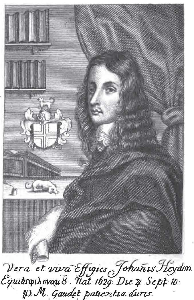 John Heydon Occultist